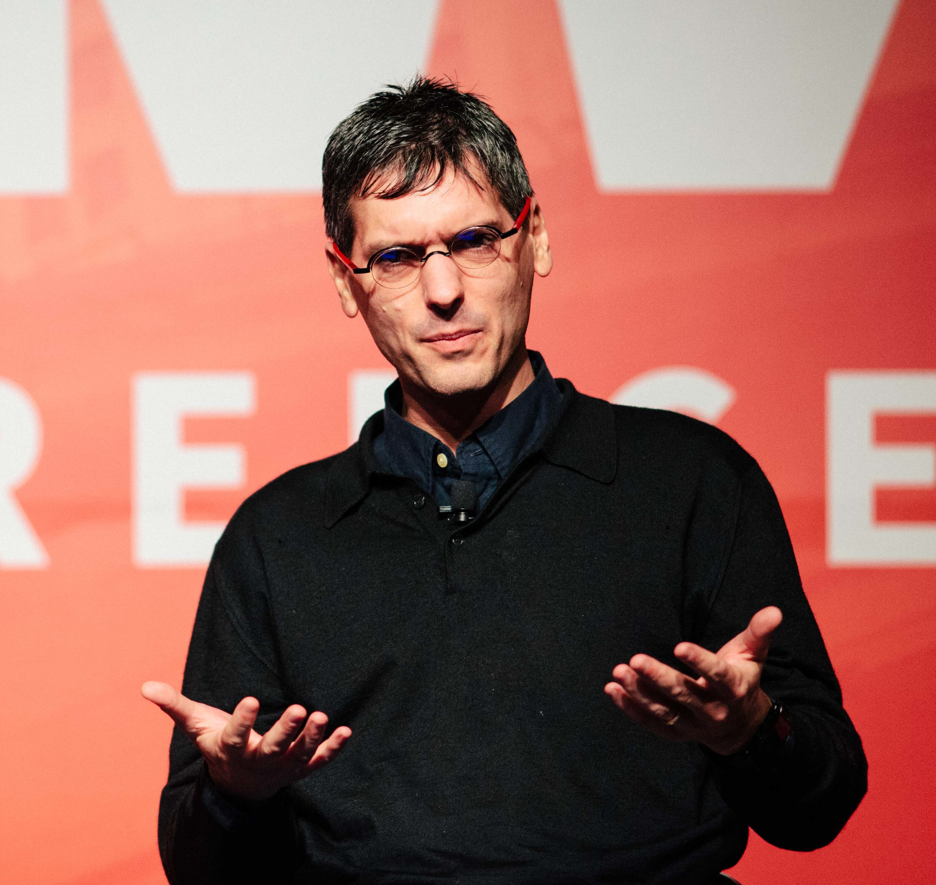 The Next Web USA 2014